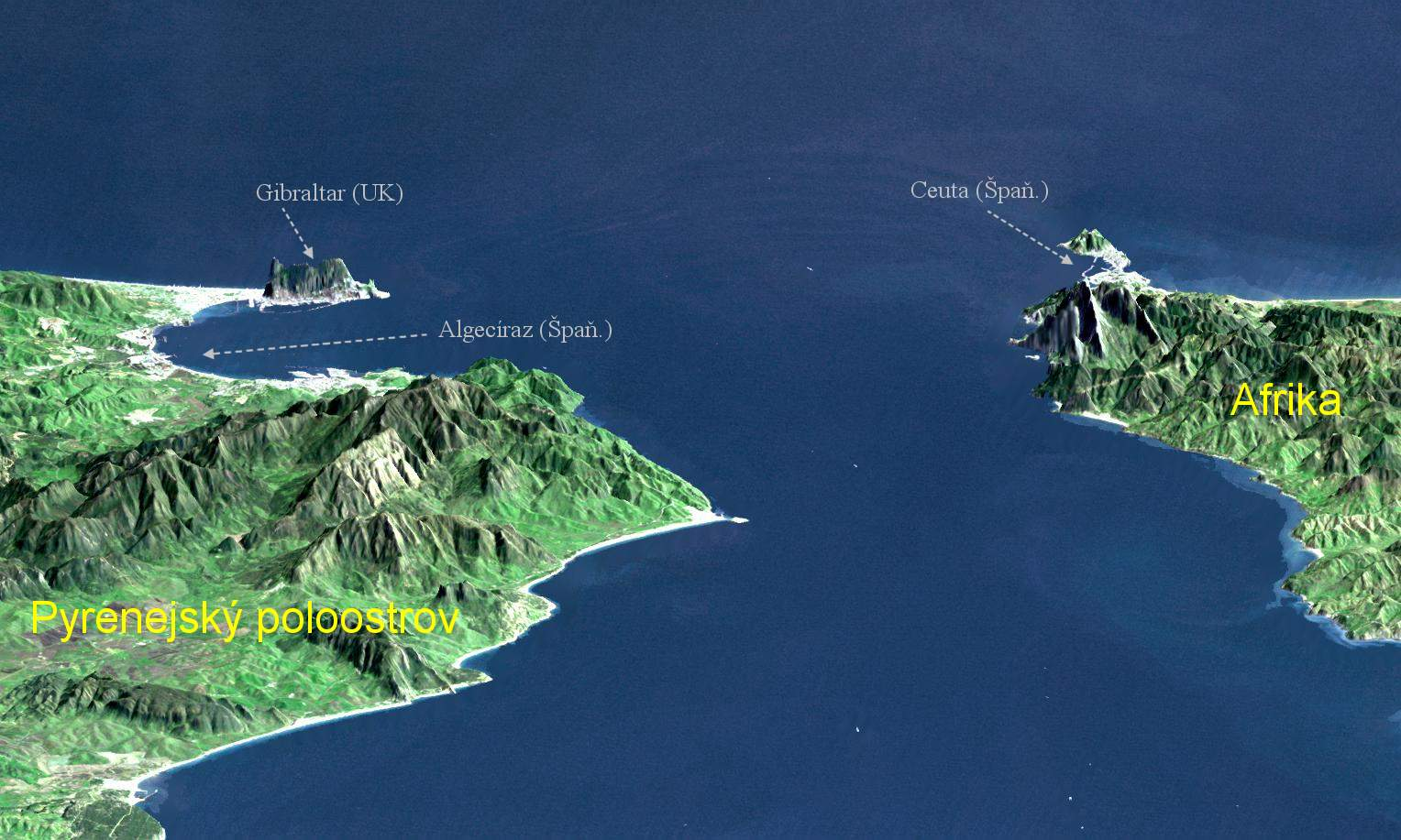 Gibraltar straits witk czech description